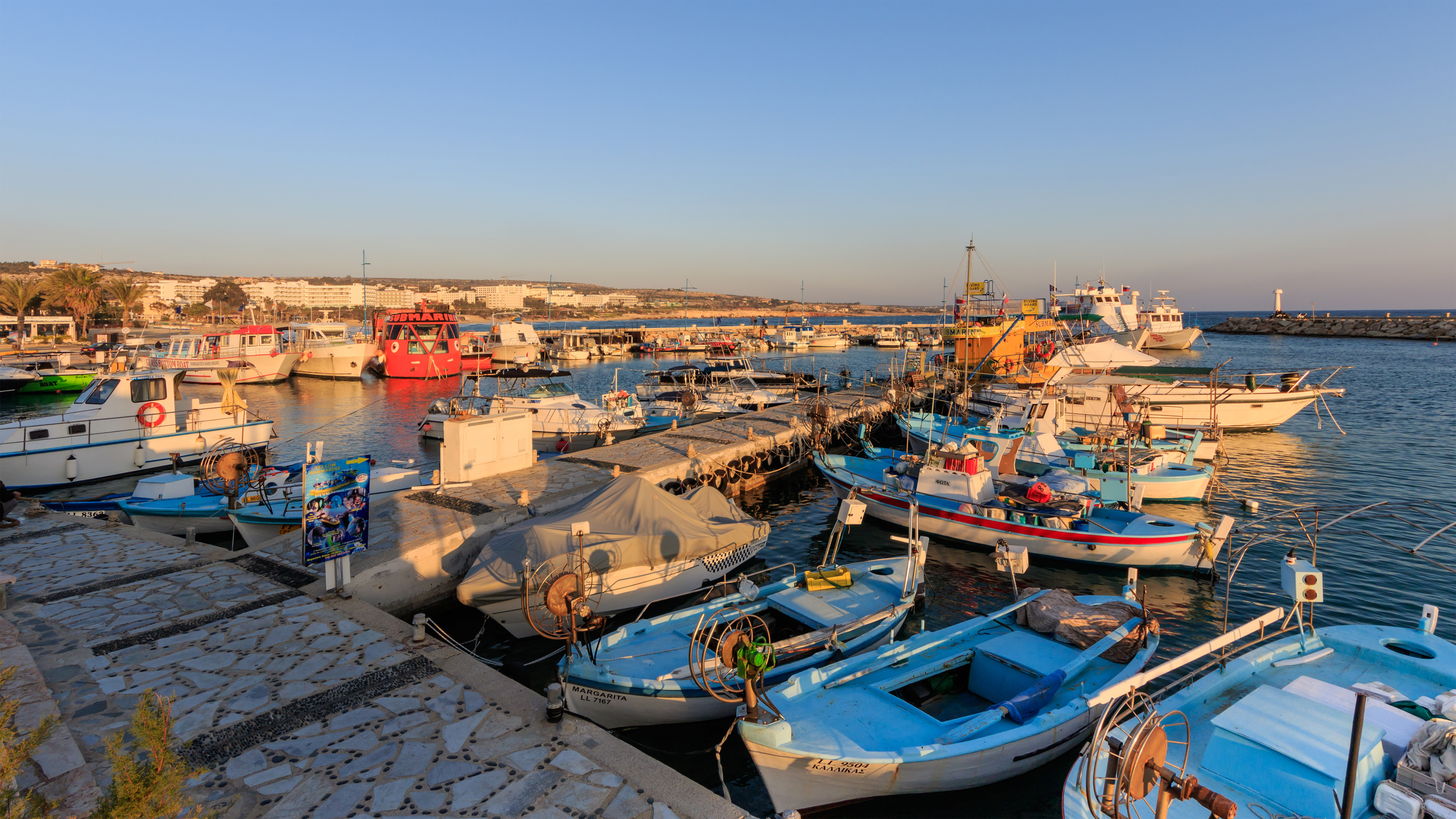 Sea harbour in Agia Napa, Cyprus